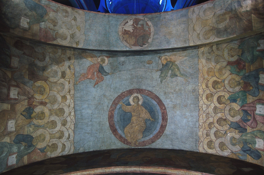 This is the only remaining fresco painted by Andrei Rublev, the great iconographer of the 15th century. It is an ensemble depicting the last judgment under the central arch of the west gallery in the cathedral of Vladimir. Few people are able to photograph it because of the poor lighting.